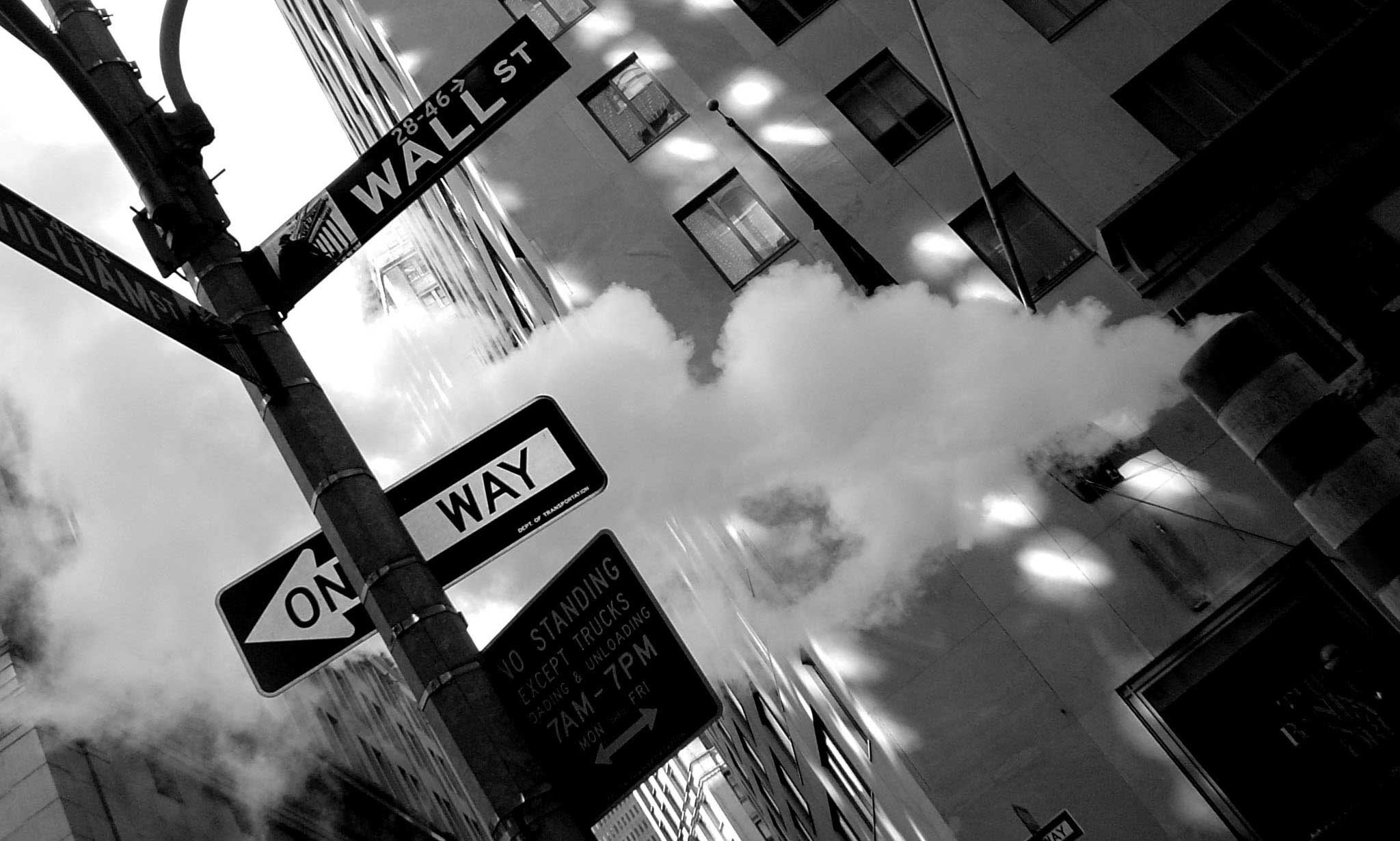 Wall Street taken above steam stack road works. Author: Paul Sparkes Location: New York February 2005 Source: Personal photograph taken by Author